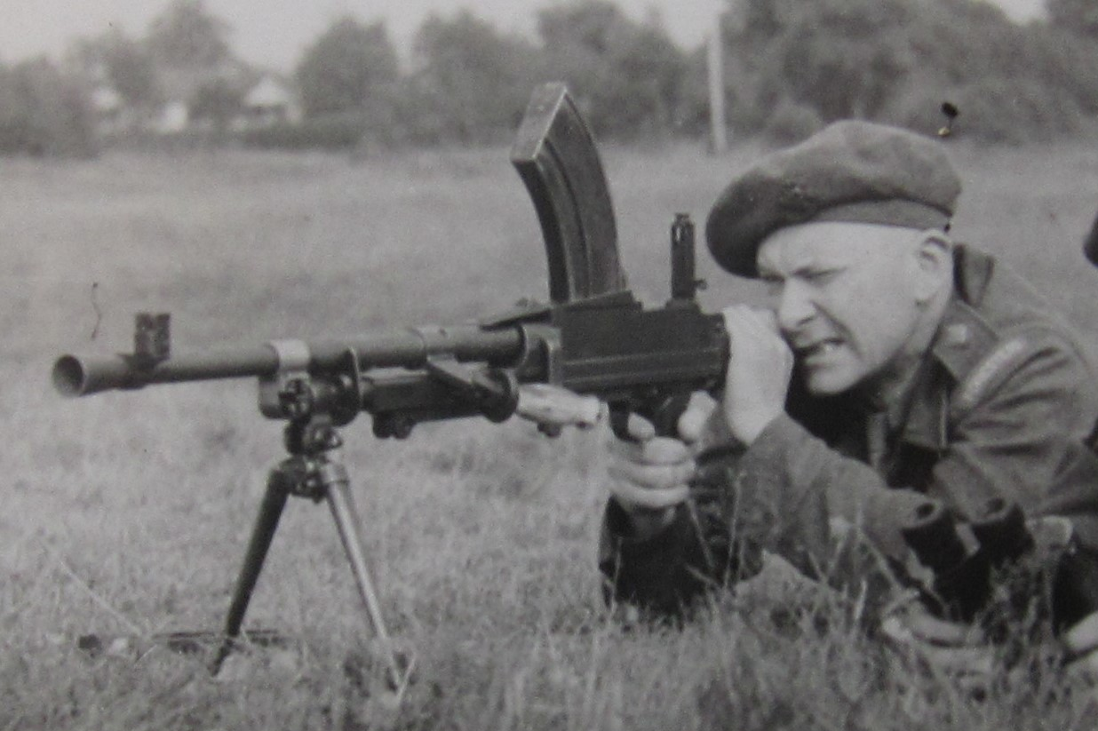 Brian Shaw, 5th Battalion Sherwood Foresters at Bisley 1947, firing a Bren light machine gun. The 5th Battalion team won the 'China Cup', Velongdis Cup' and 'Lewis 9mm' cup at Bisley in 1947